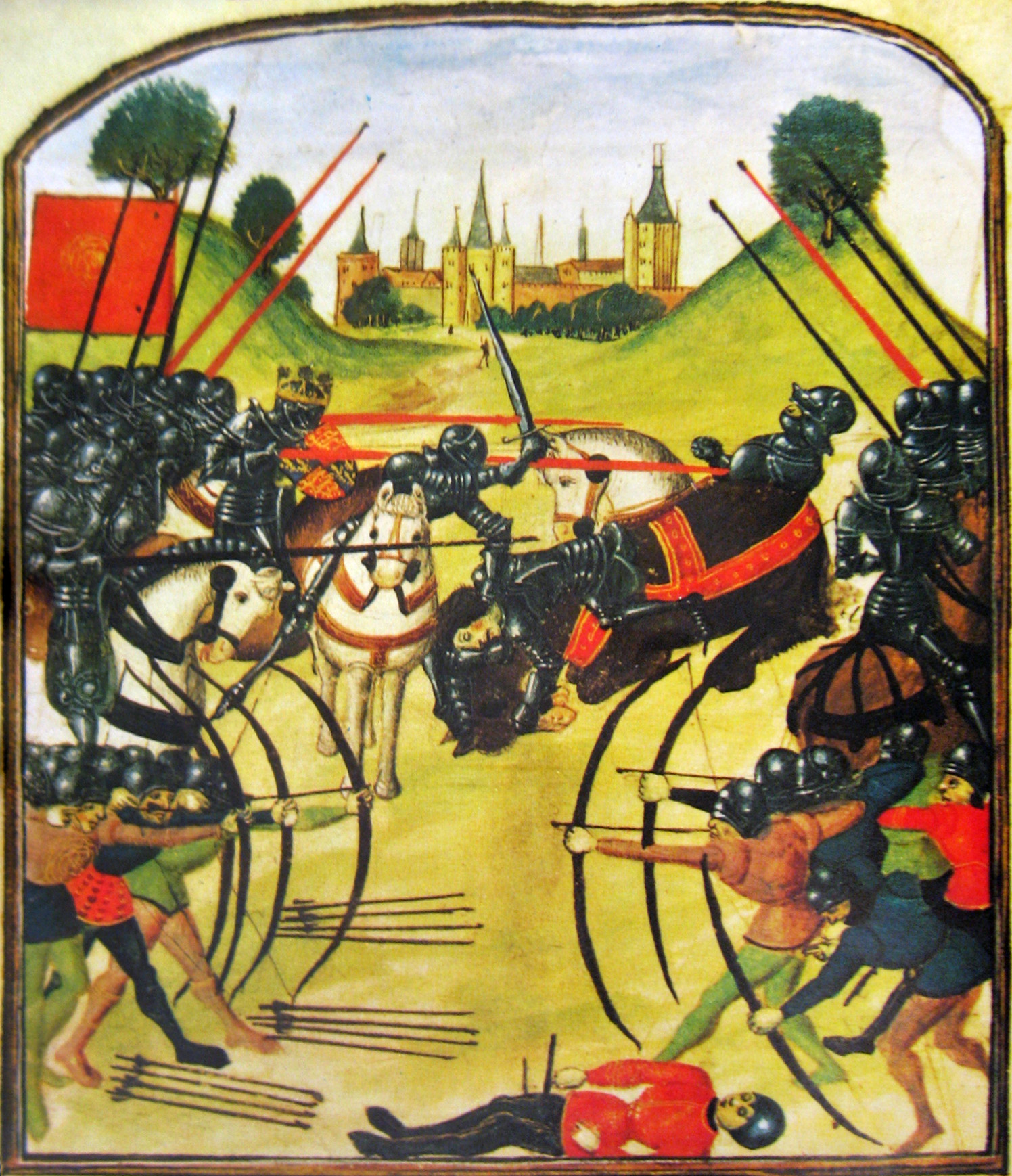 The Battle of Tewkesbury, as illustrated in the Ghent manuscript